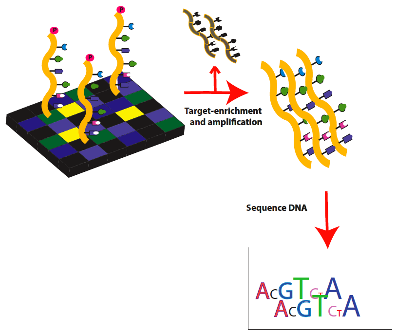 Exome sequencing workflow: Part 2. Target exons are enriched, eluted and then amplified by ligation-mediated PCR. Amplified target DNA is then ready for high-throughput sequencing.